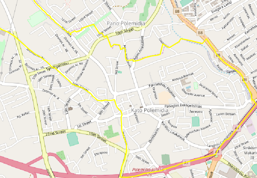 Map of bulit-up area of Panagia Evangelistria (Kato Polemidia).